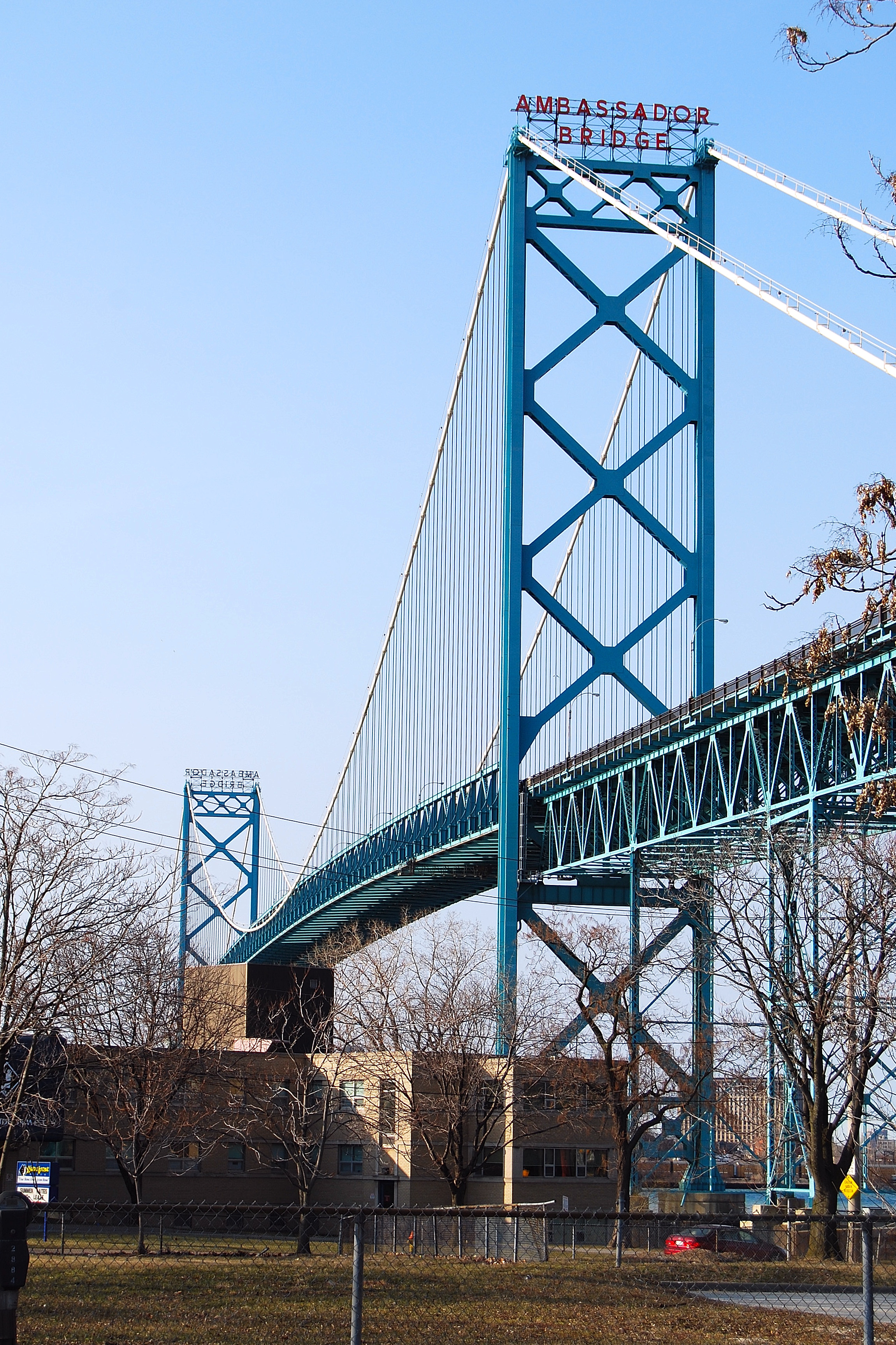 The Ambassador Bridge is a suspension bridge that connects Detroit, Michigan, in the United States, with Windsor, Ontario, in Canada